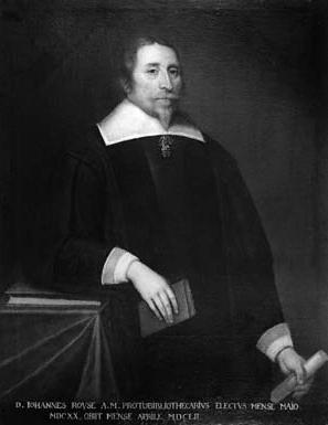 A portrait of John Rouse (1574–1652), Librarian of the Bodleian Library at the University of Oxford.